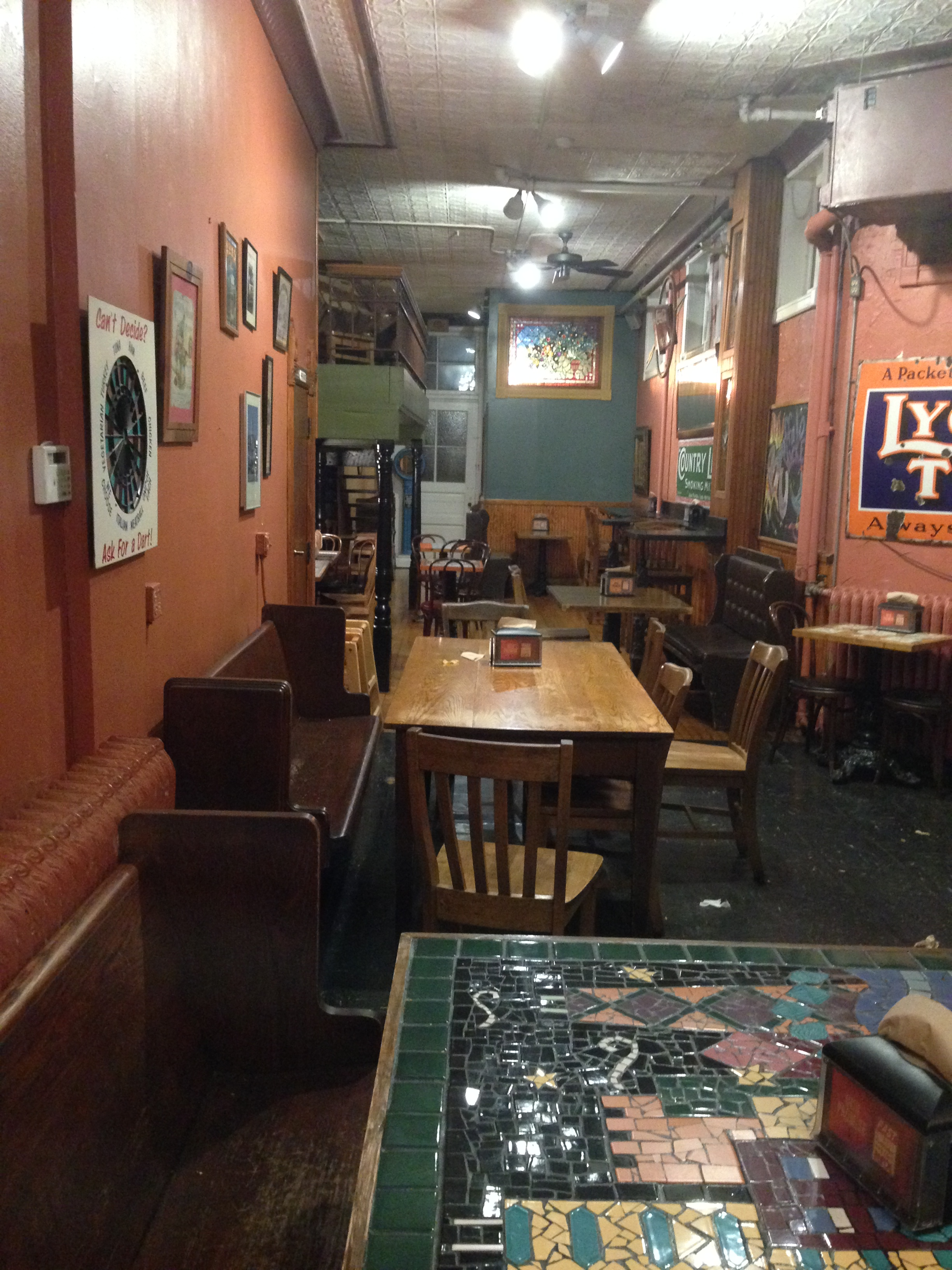 seating area in the very first Potbellys Restaurant